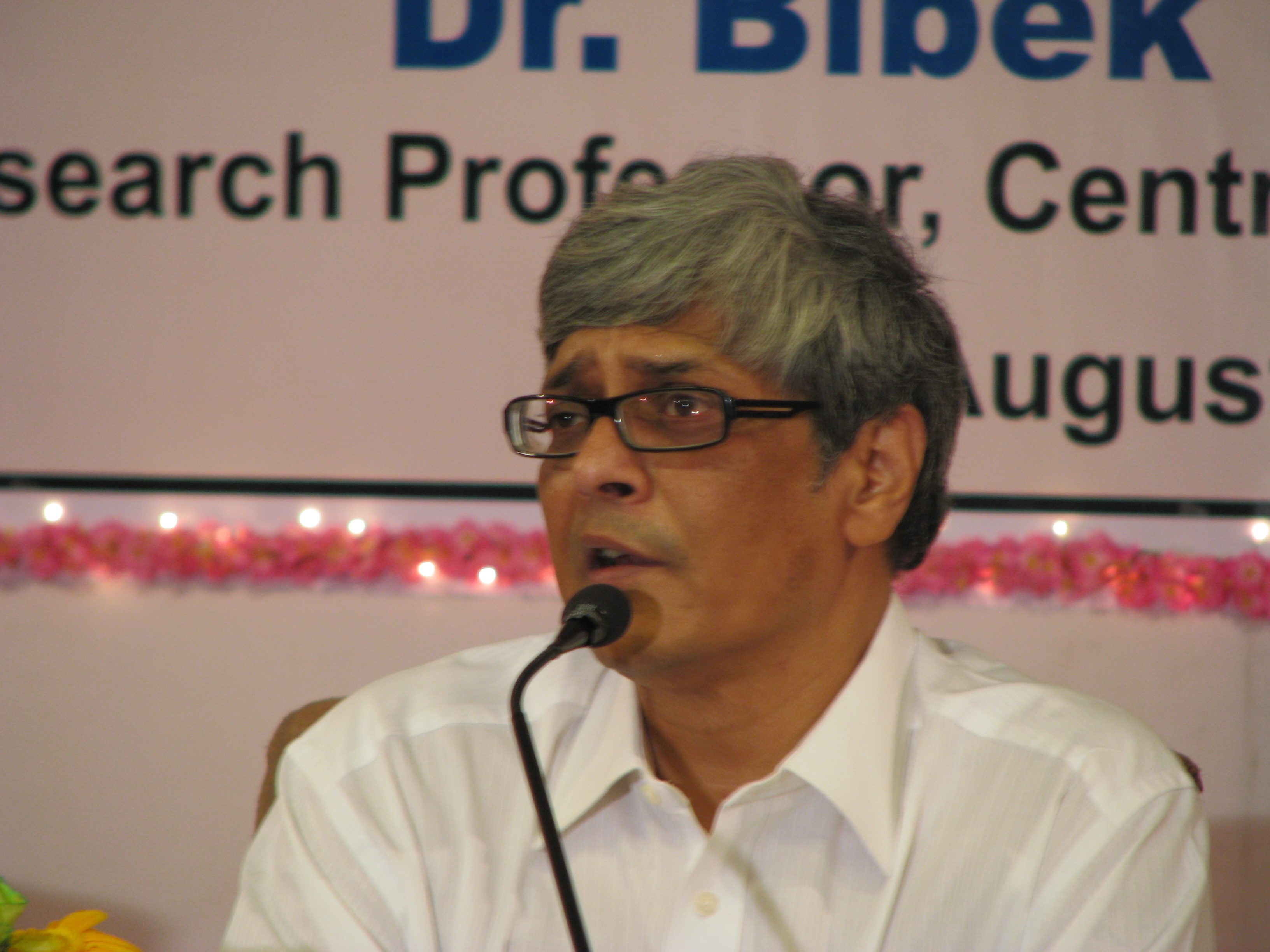 Prof. Bibek Debroy at Ahmedabad Management Association.